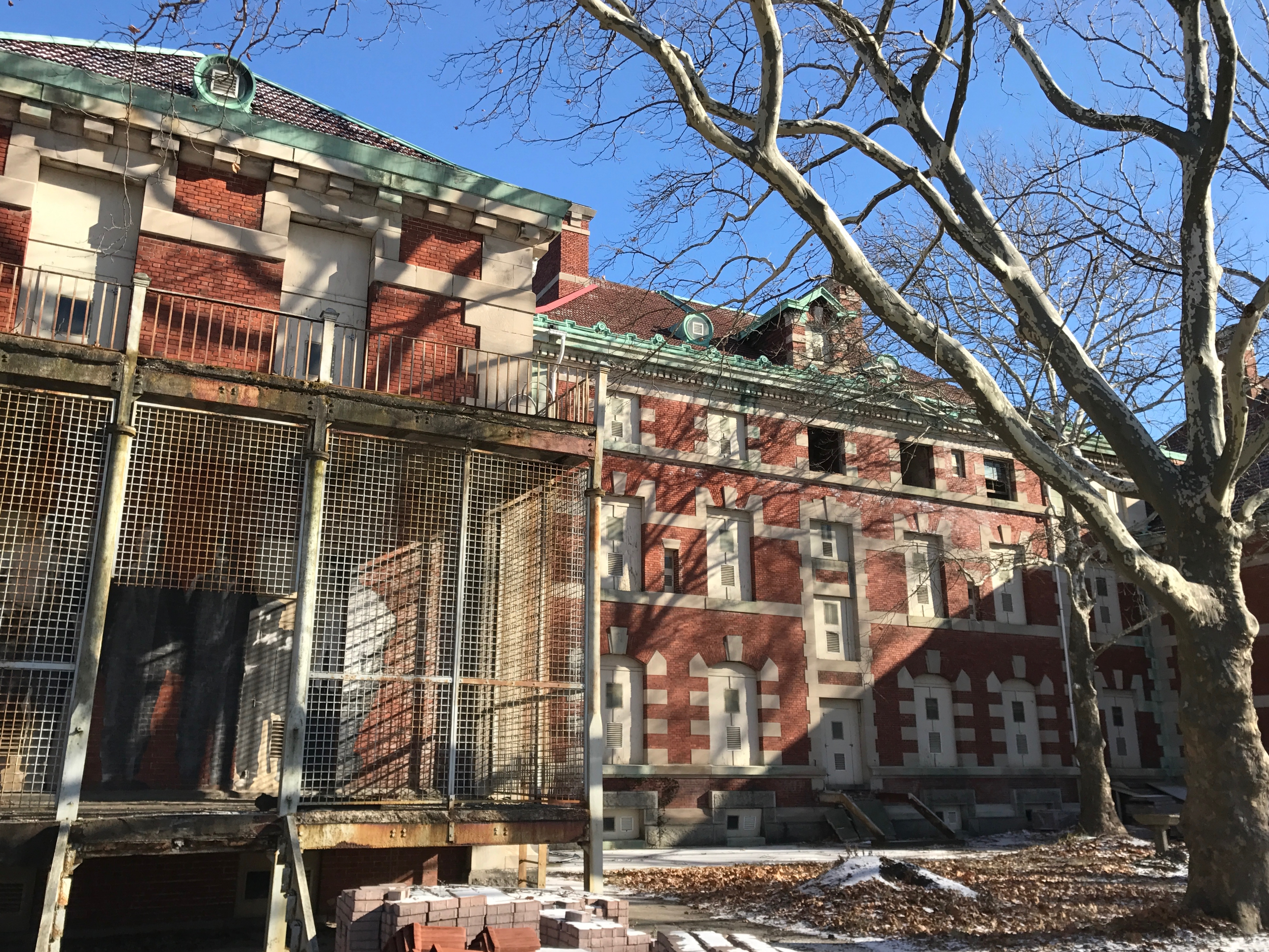 A south facing porch of the general hospital at the Ellis Island Immigrant Hospital. This particular porch is of the psychopathic ward with the caged-in porch.